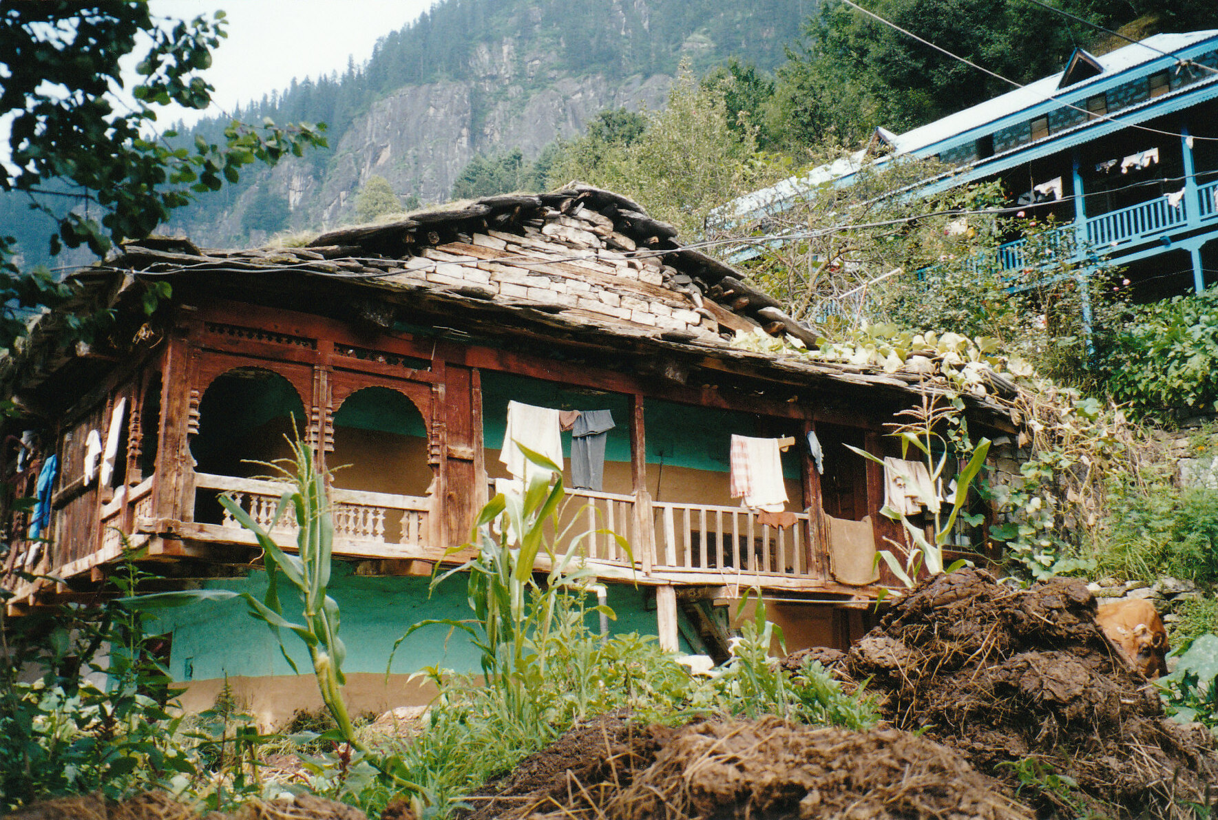 Traditional house near Manali. Himachal Pradesh, India. Himalaya